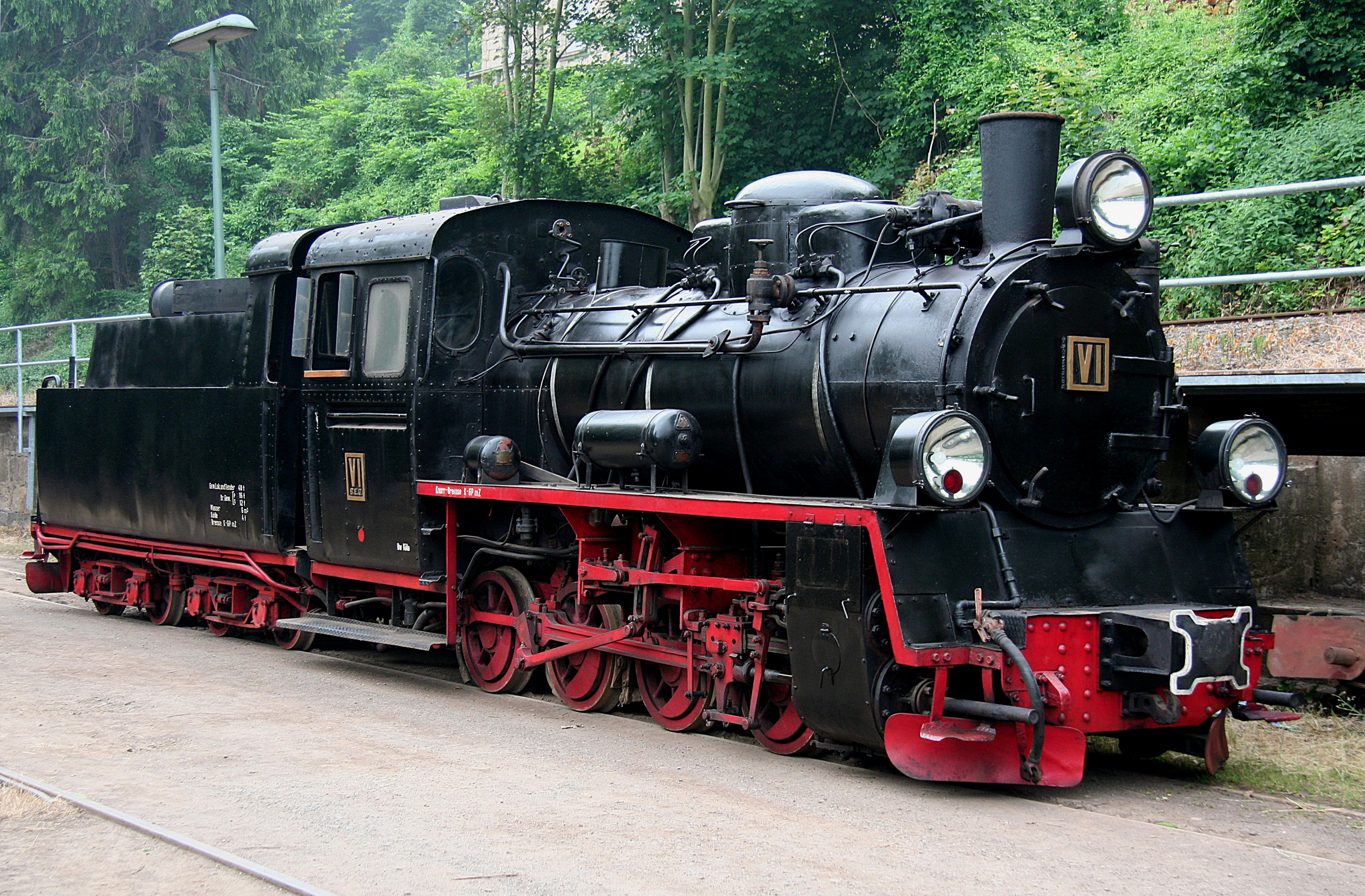 Former locomotive engine of Brohltalbahn, built in 1952, purchased in 1990 and sold in 2009 to an MaLoWa. Manufacturers plate: PIERWSZA Fabryka Lokomotyw W Polsçe Chrzanów No 2248 - 1952, weight of engine and tender 40 t